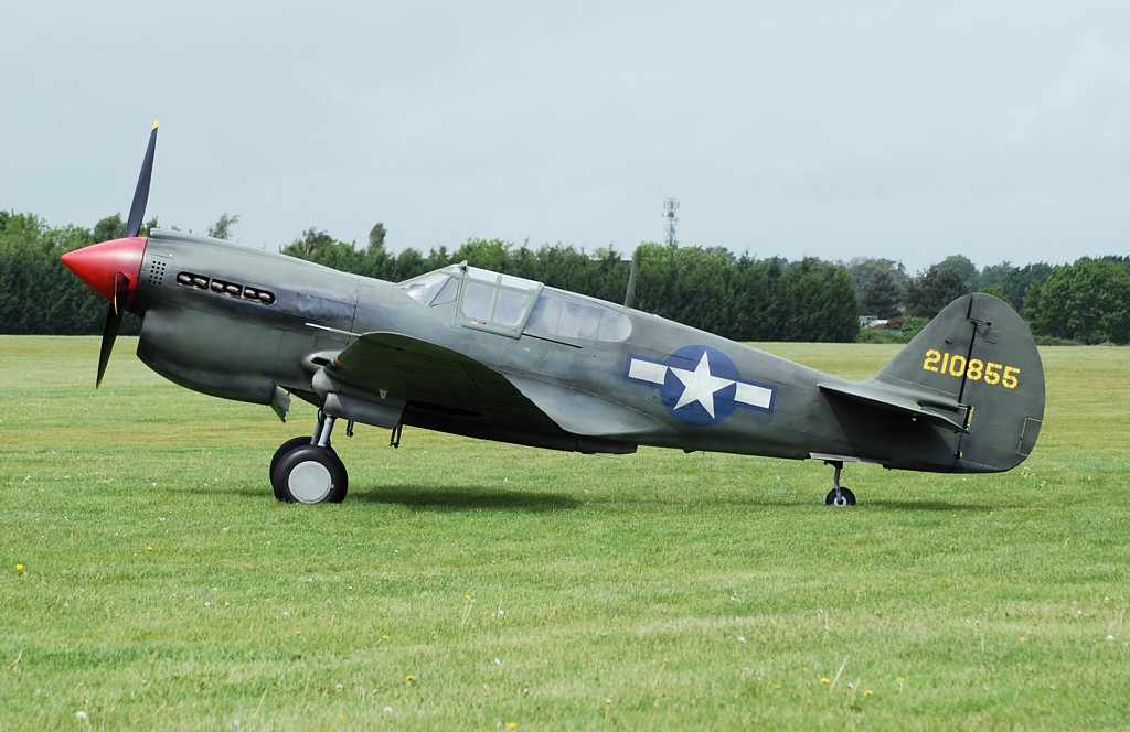 Curtiss P-40 visiting my local airfield